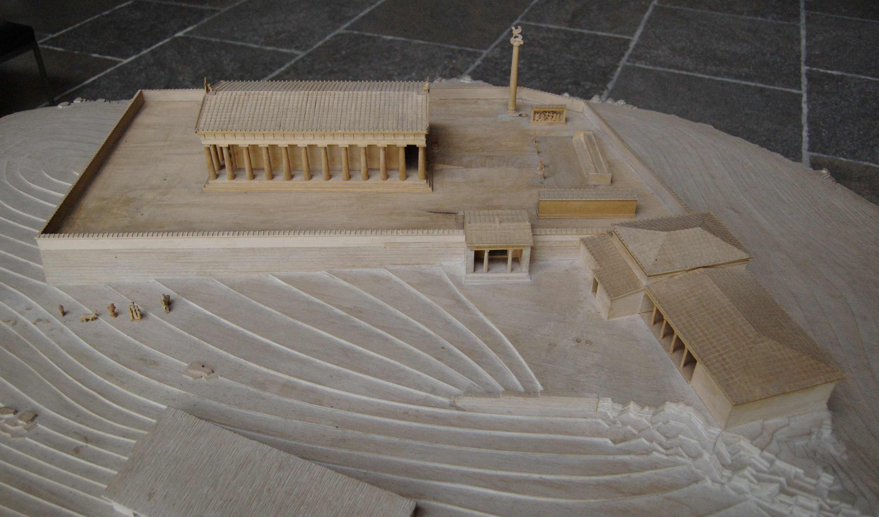 The Greek sanctuary of Aphaia in Aegina, model.